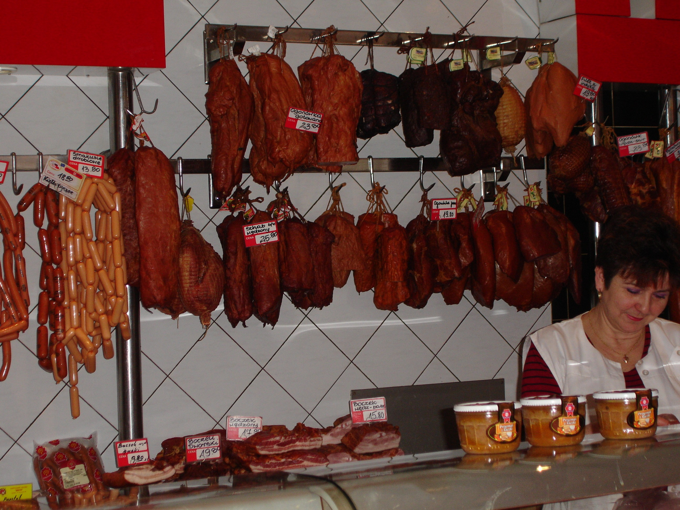 Polish meat counter, Gdansk, Poland.